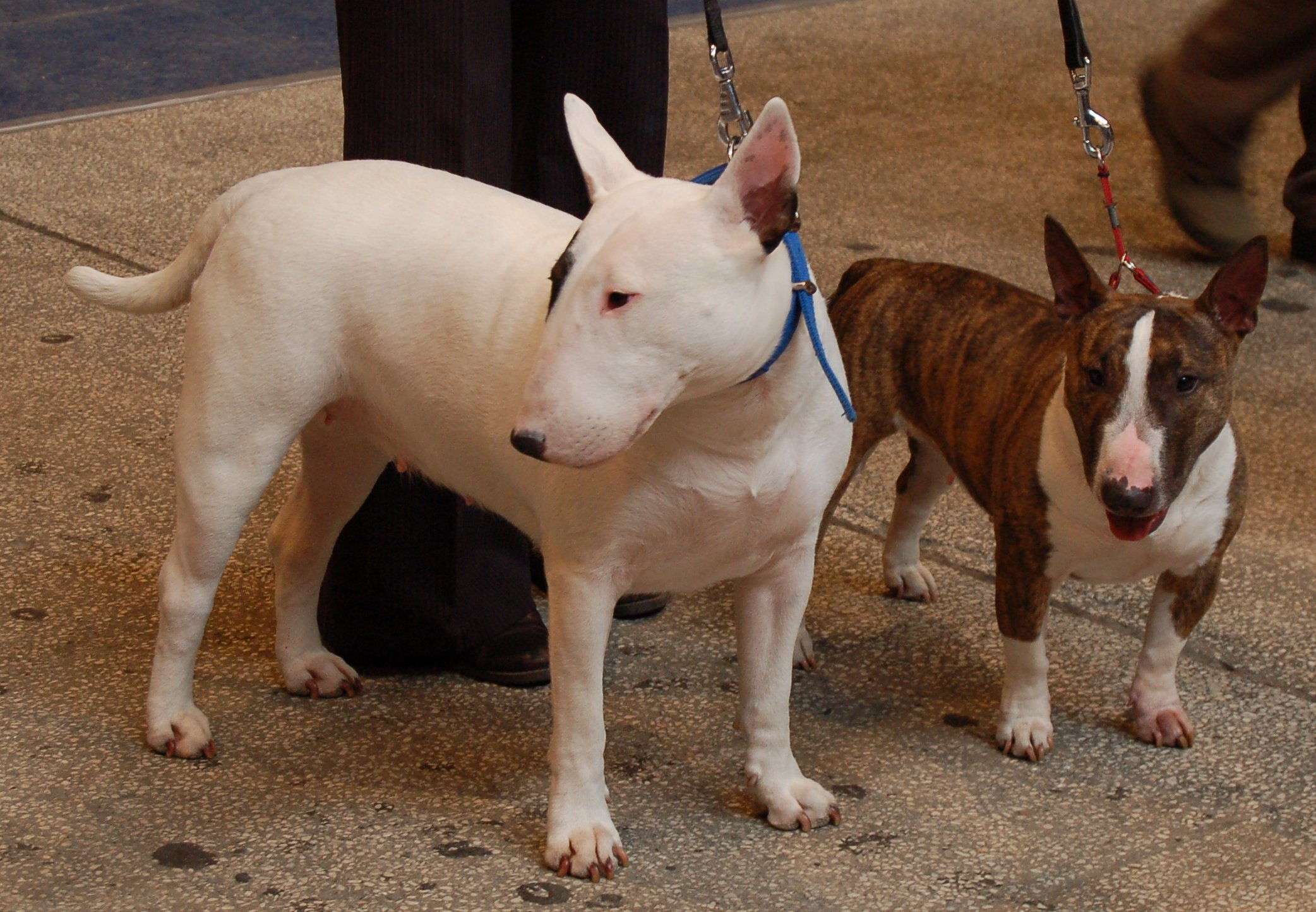 Bull Terrier during dogs show in Katowice, Poland